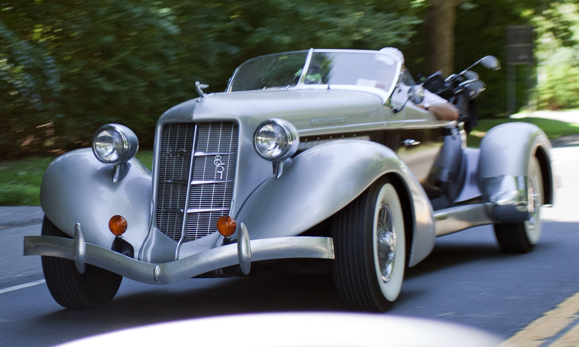 Auburn 851 Boattail Speedster replica, presumably Corvette-based.